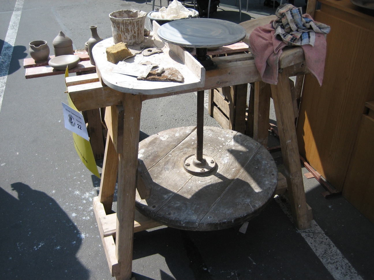 Potter's wheel at the pottery market in Erfurt, Germany